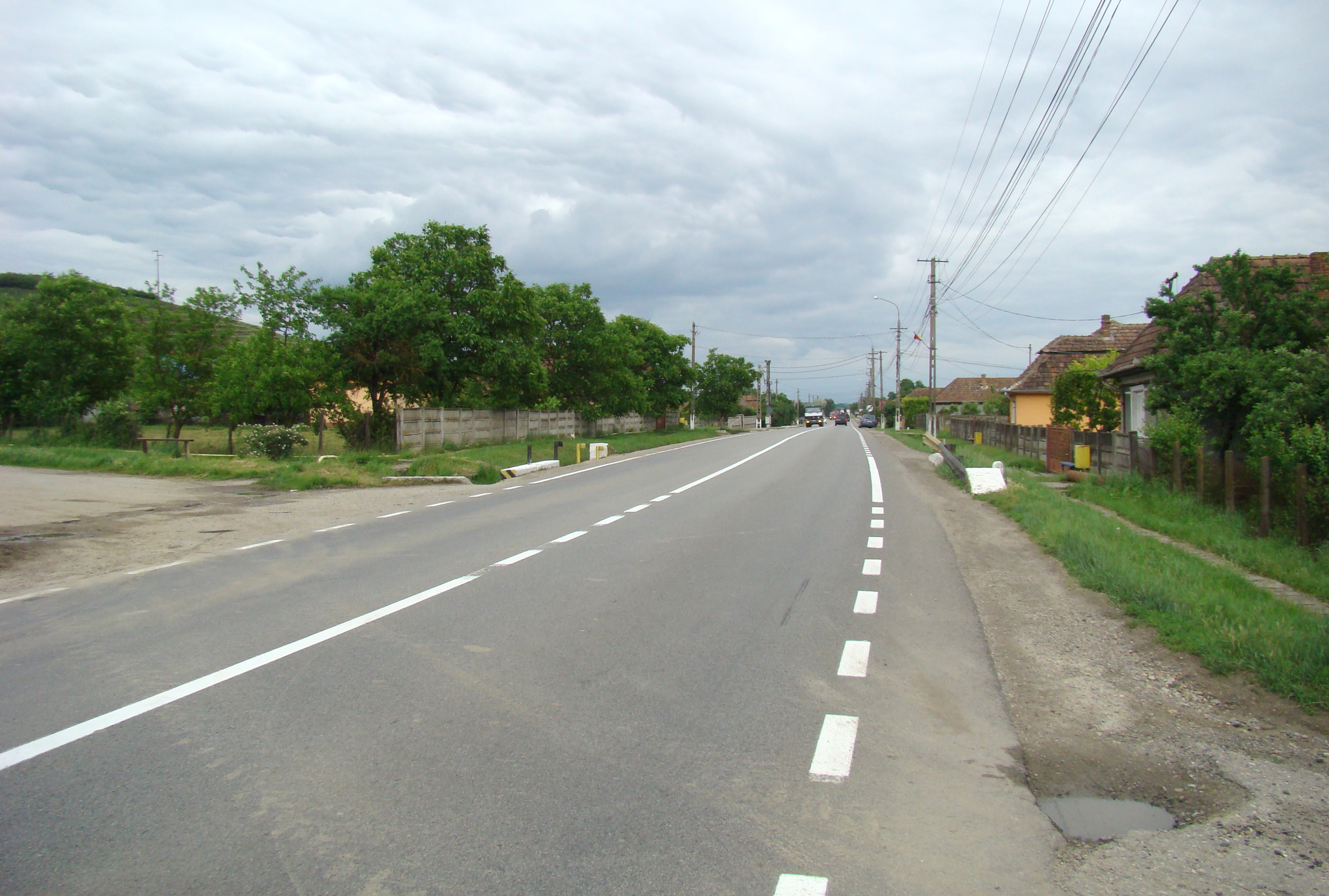 Hădăreni, Mureș county, Romania